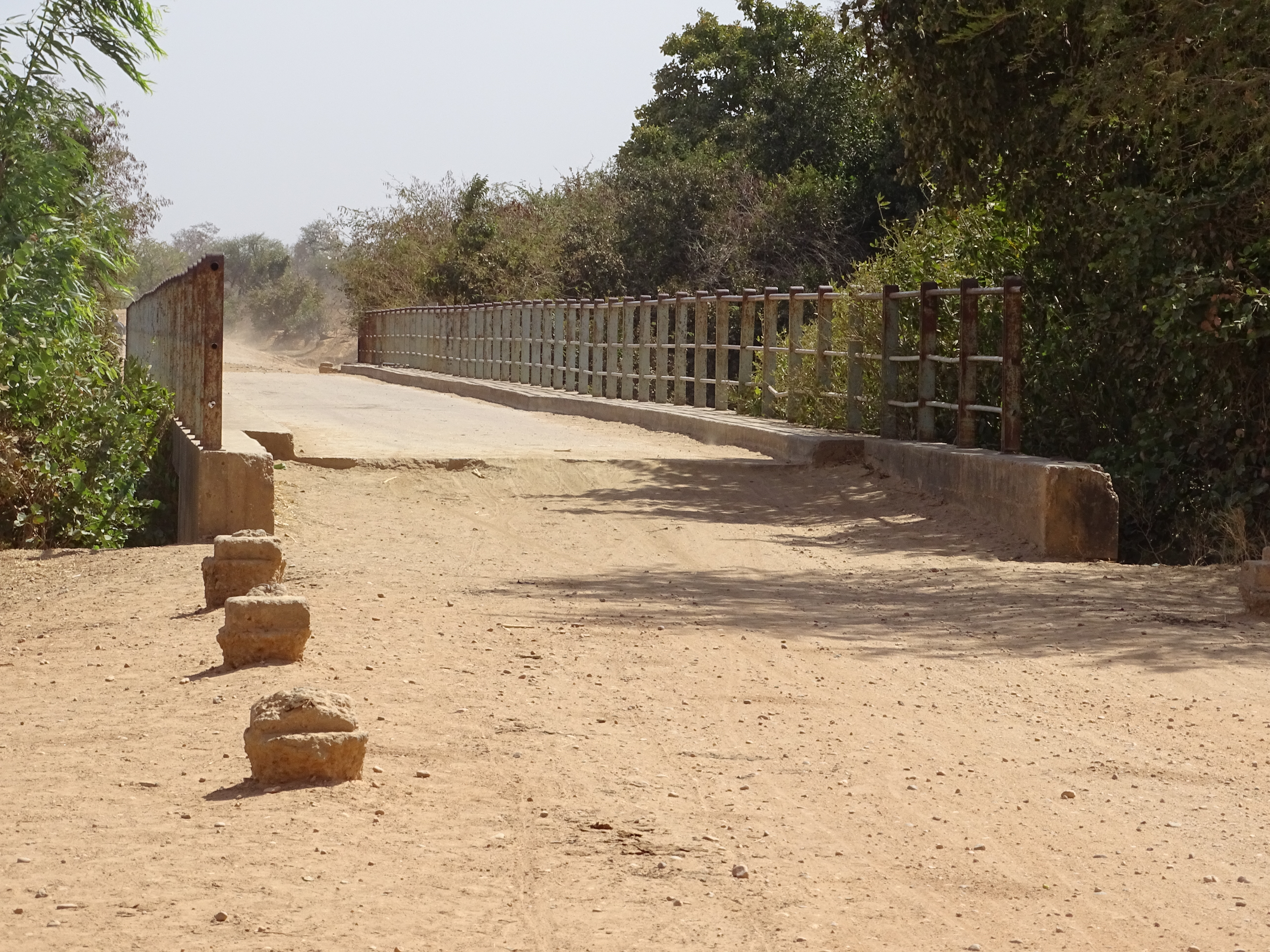 This is an image with the theme "Africa on the Move or Transport" from: Benin